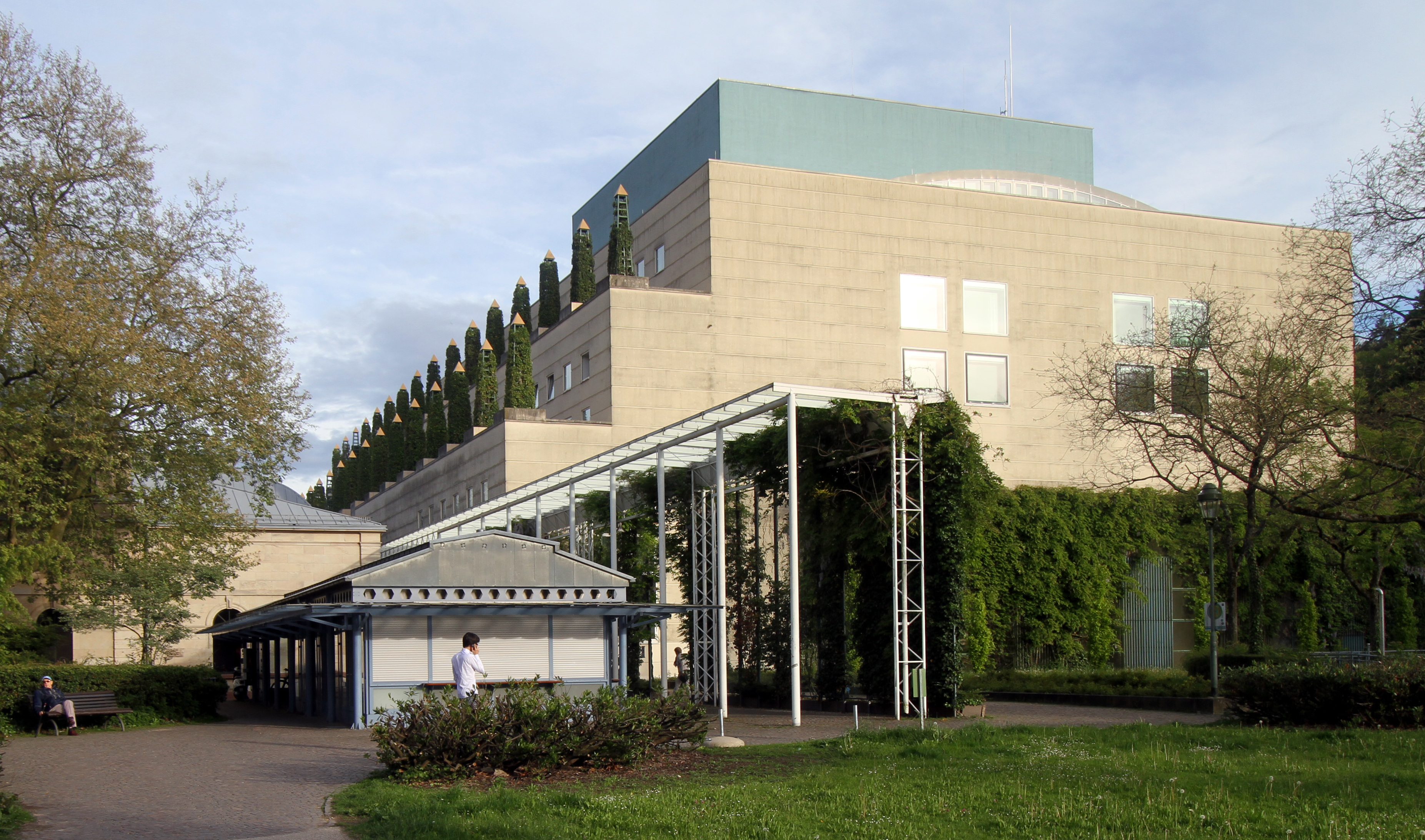 Festivalhall Baden-Baden